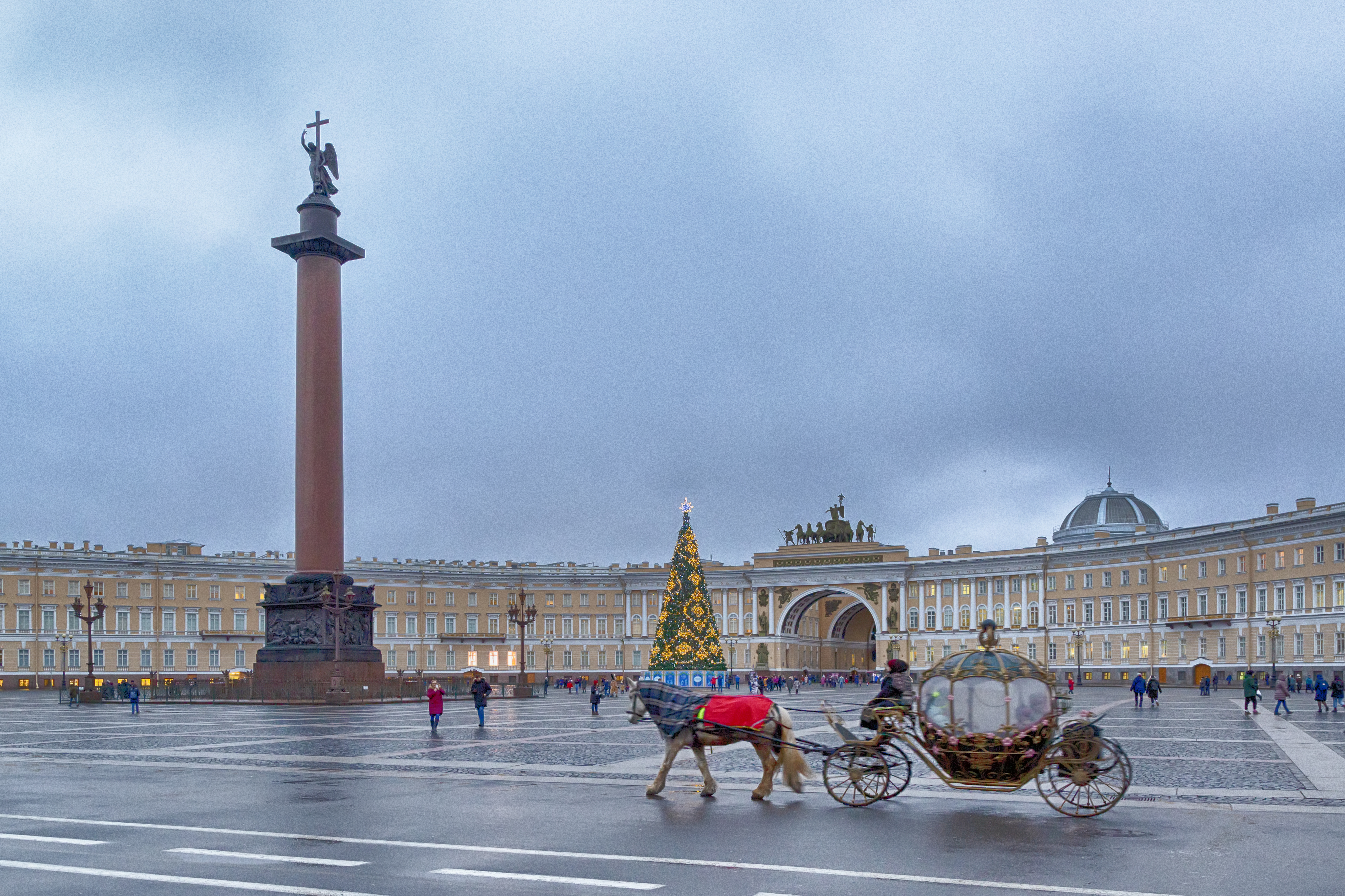 Palace Square backed by the General staff arch and building during Christmas 2019